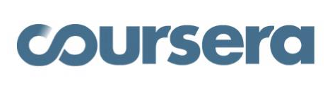 Logo of Coursera